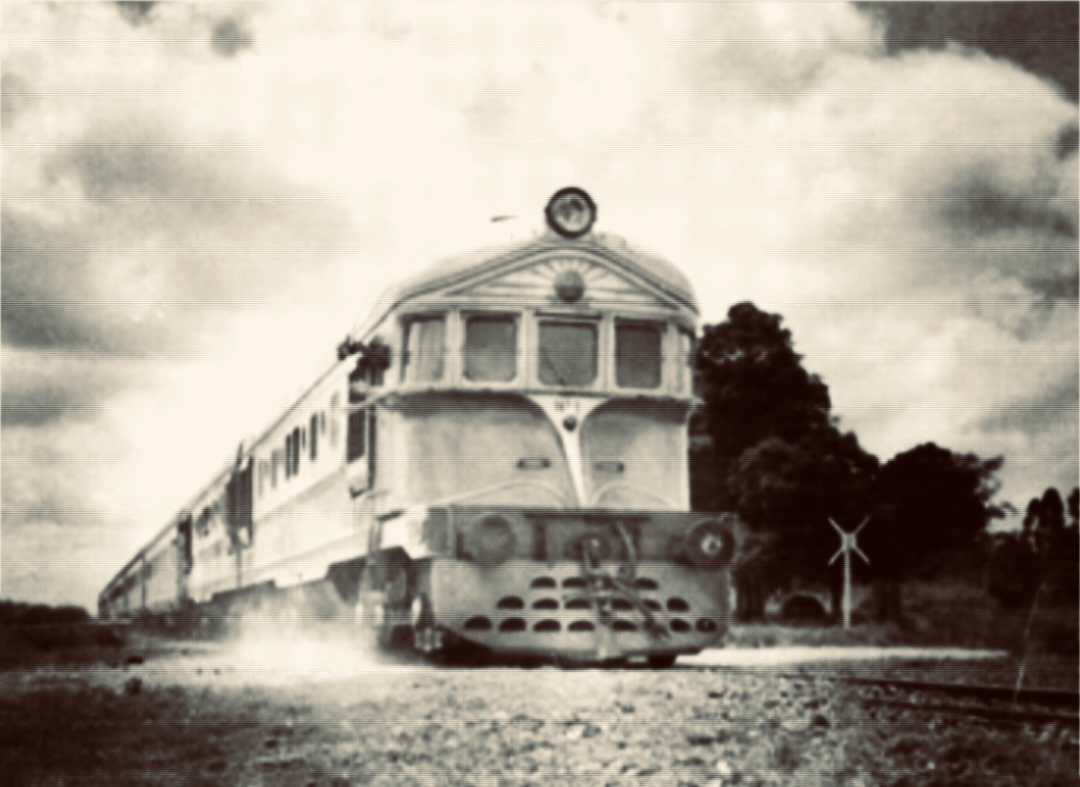 One Argentine locomotive produced by FADeL ("Fábrica Argentina de Locomotoras), mostly known as "Justicialista", at a level crossing without gates.